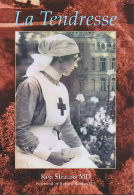 Photograph of the front book-cover on Ken Strauss' novel, La Tendresse (hardback version)showing Elizabeth, a nurse and one of the books main characters, sitting in front of the chateau which served as a casulty clearing station.